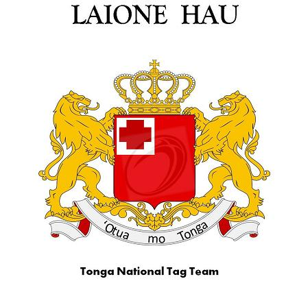 Team logo smaller version for upload to article